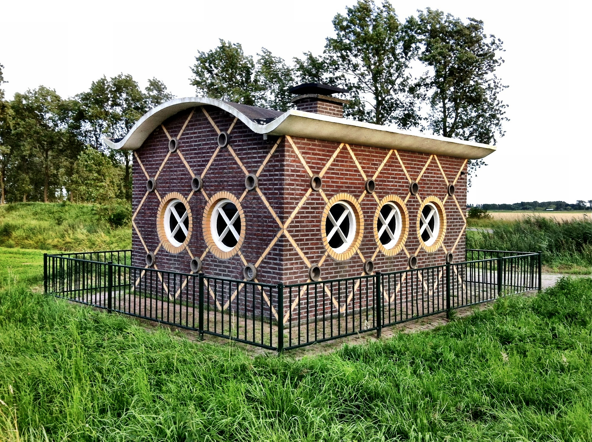 Hydrophore station 1955. Kortgene (Zeeland, The Netherlands) Architect: Sybold van Ravesteyn.